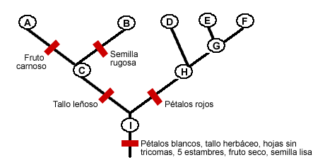 Example of cladogram